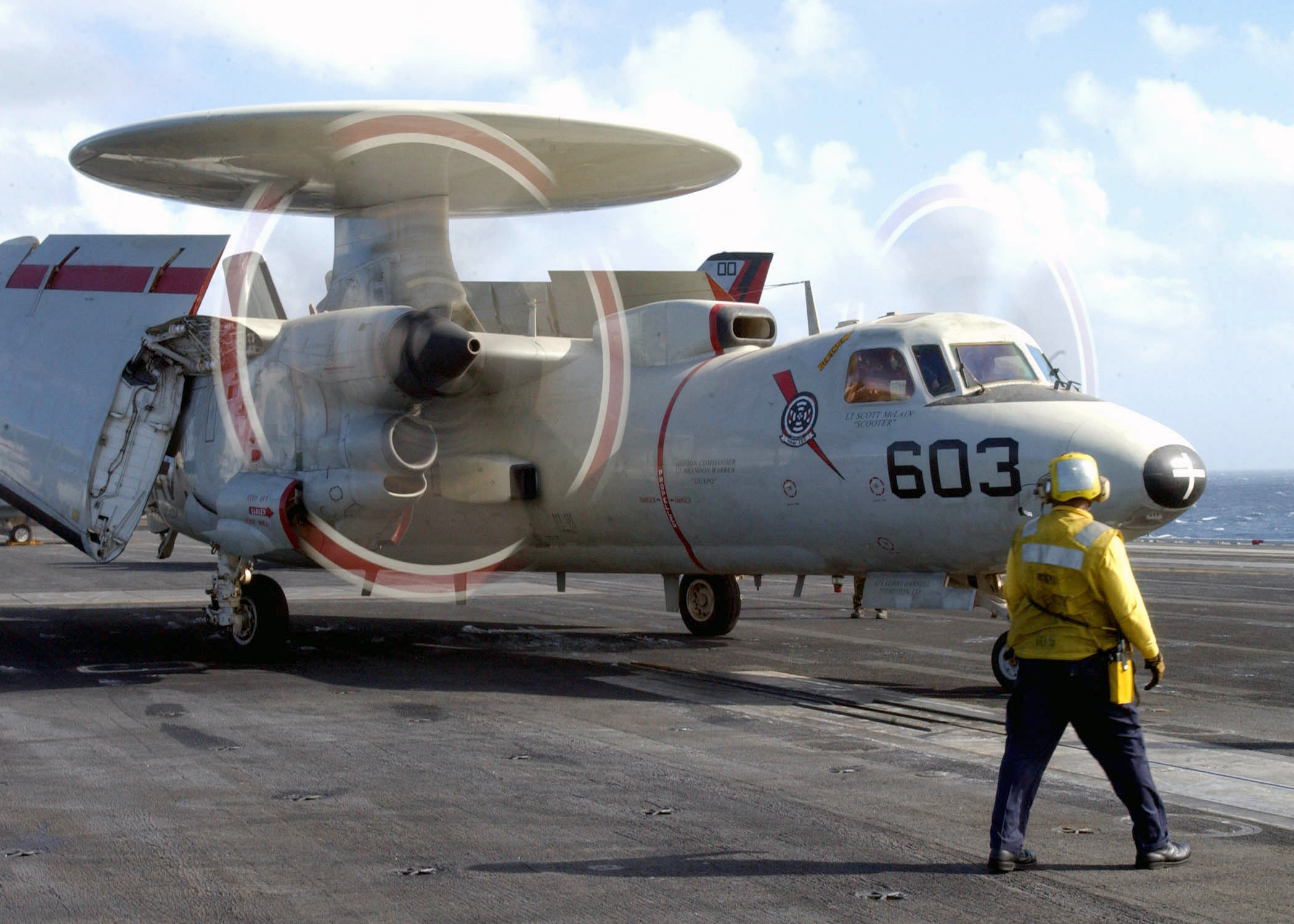 At sea aboard USS Theodore Roosevelt (CVN 71) Feb. 18, 2003 -- An E-2C Hawkeye assigned to the Bear Aces of Carrier Airborne Early Warning Squadron One Two Four (VAW-124) is safely guided around the ship's flight deck. Roosevelt and her embarked Carrier Air Wing Eight (CVW-8) are conducting operations in the Mediterranean Sea. U.S. Navy photo by Photographer's Mate Airman Brad Garner. (RELEASED)